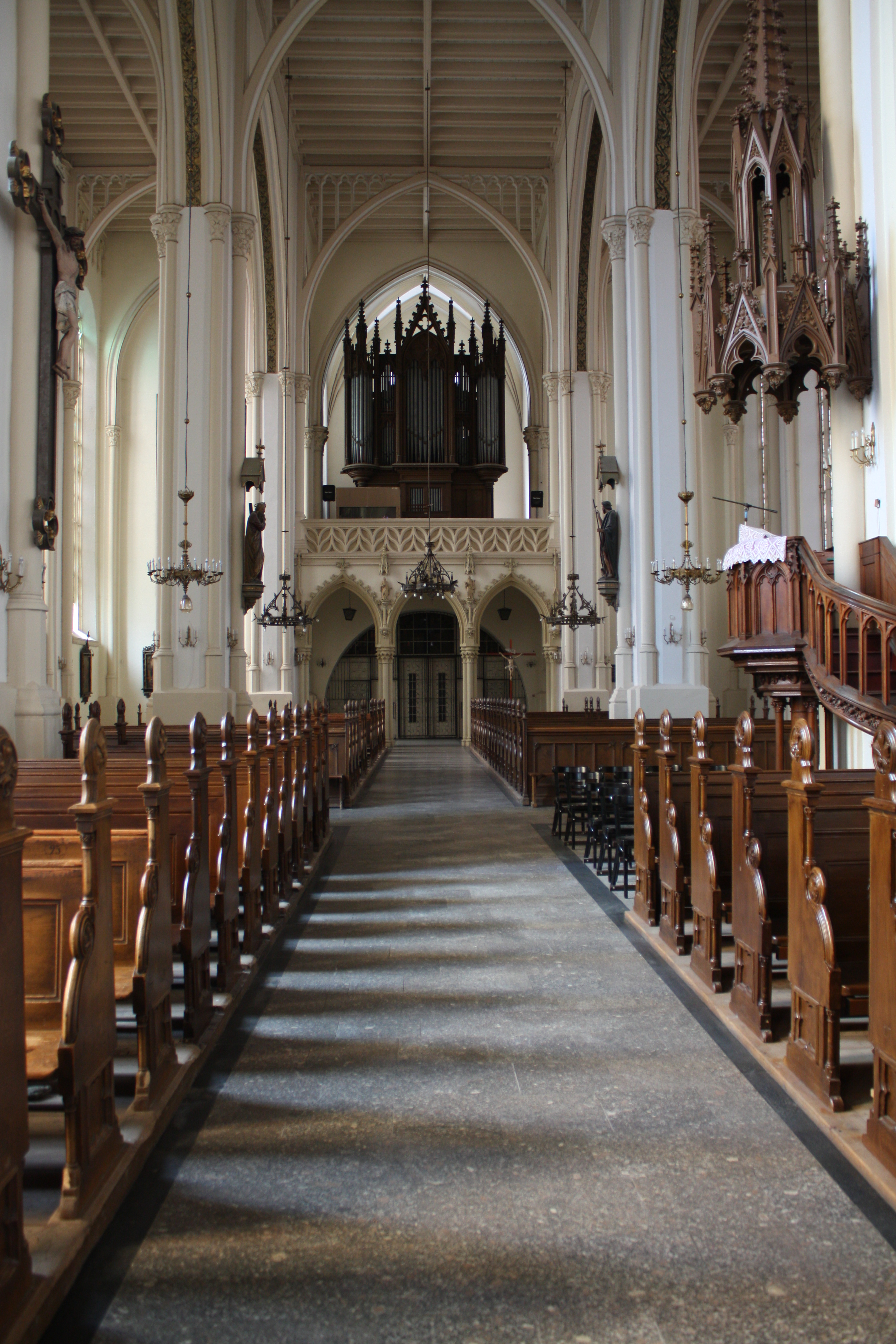 This photo of Lower Silesian Voivodeship was taken during Wikiexpedition 2013 set up by Wikimedia Polska Association. You can see all photographs in category Wikiekspedycja 2013. English | Polski | +/−